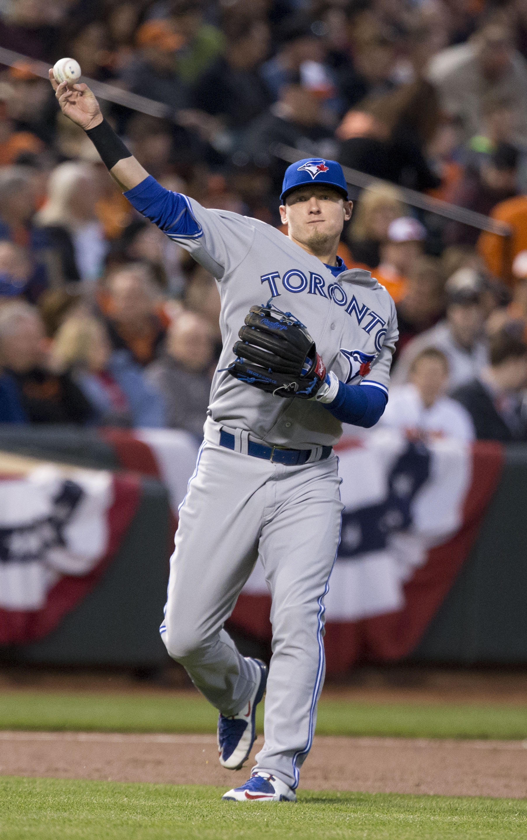 Blue Jays at Orioles 04/11/15